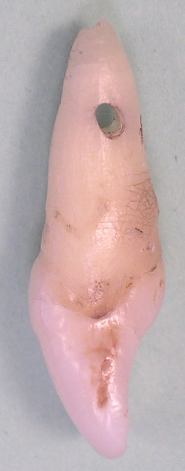 Photo of a permanent maxillary central incisor (#9 by the universal system of notation) taken from the distal view. Source: Photo taken by dozenist